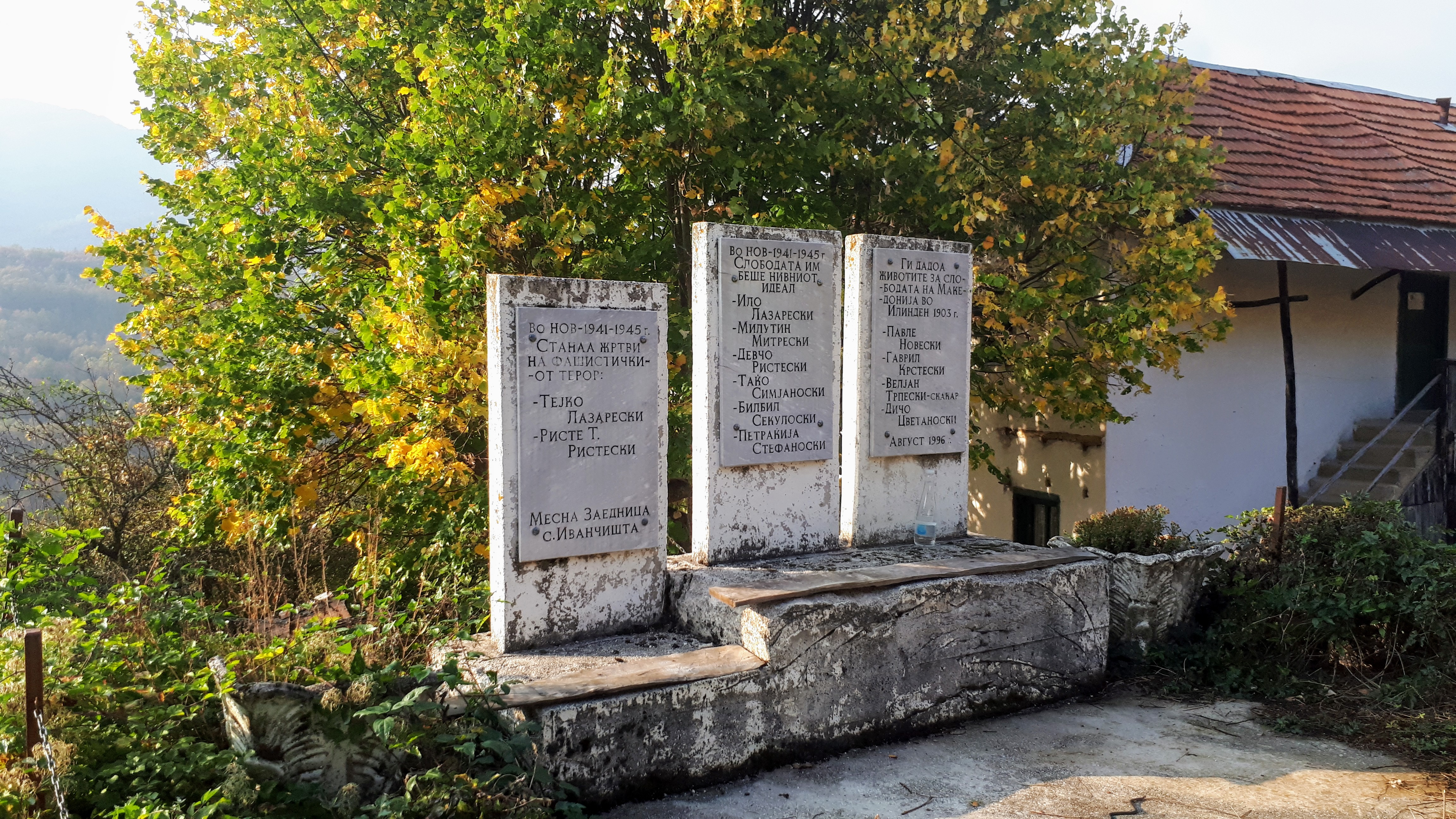 Monument in the village Ivančišta